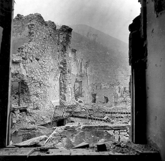 Ruins of Monte Cassino